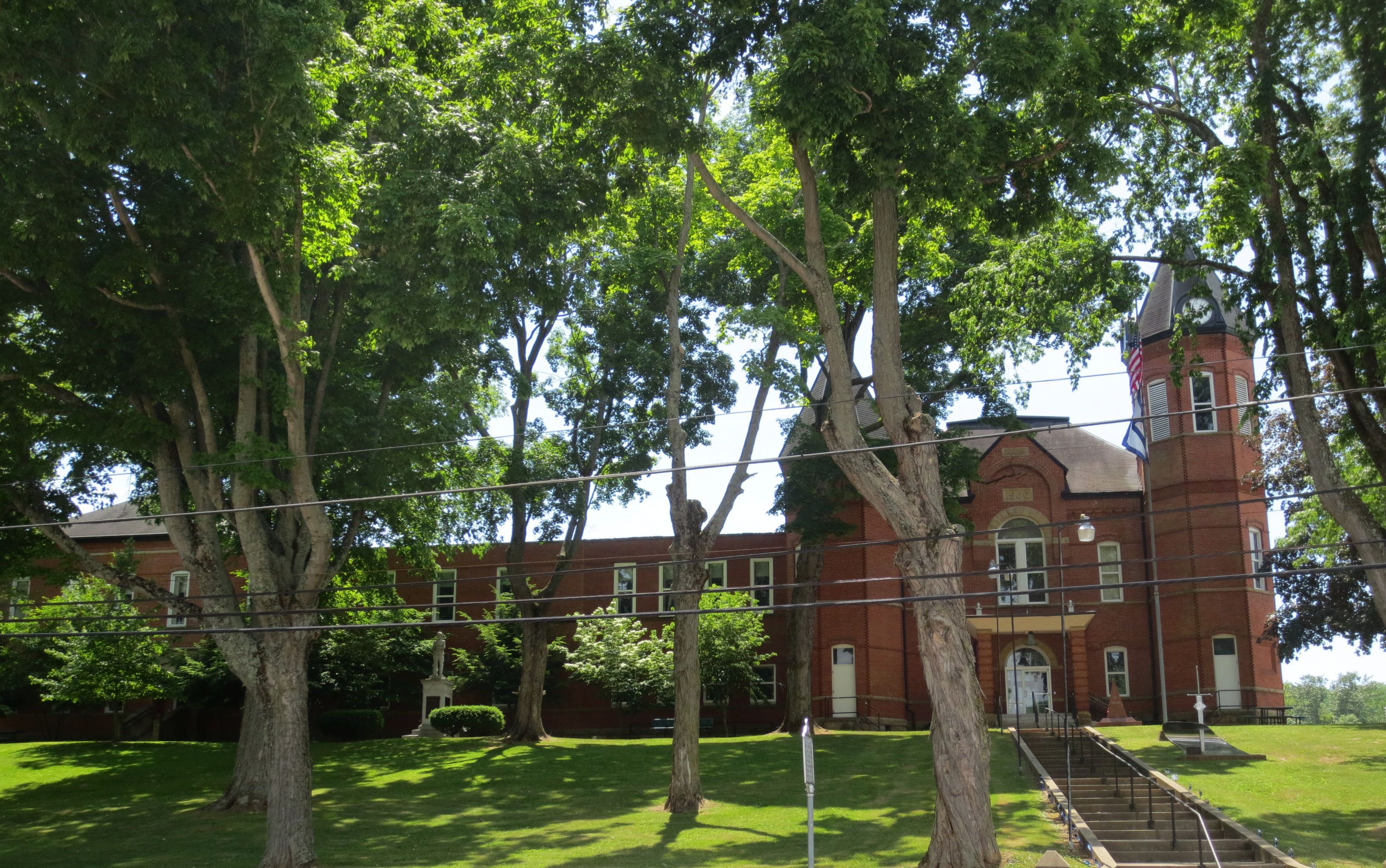 Putnam County Courthouse (West Virginia). The 1900 building is on the right, with a large late 20th C. annex built onto it.